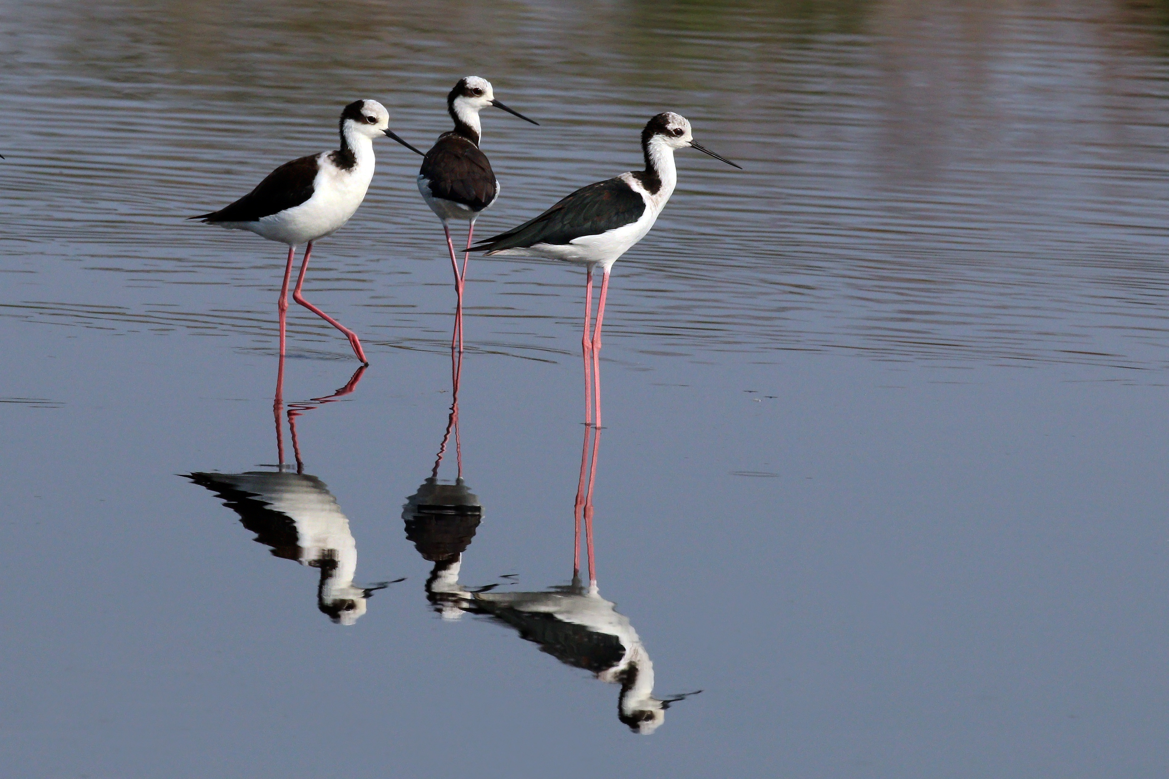 White-backed stilts (Himantopus melanurus), the Pantanal, Brazil